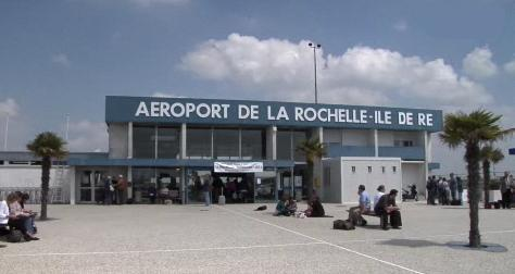 Main terminal view of La Rochelle airport